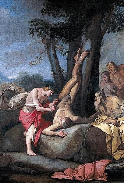 Apollo and Marsyas